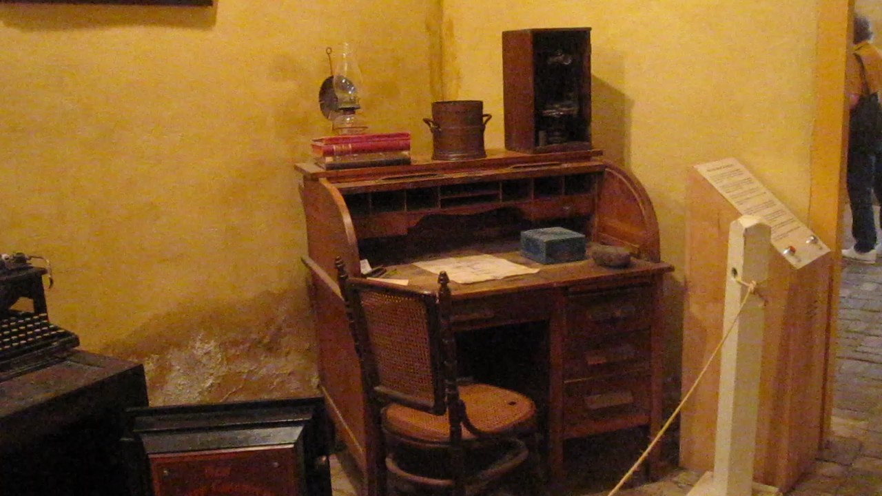 I took picture with Canon camera.